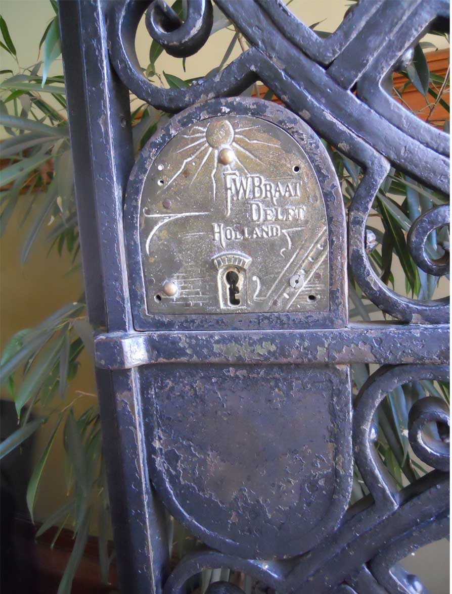 Lock of the entrance of the old Nederlandsche Bank Building in Pretoria, with tulip motives, in Art Nouveau style. Made by F.W. Braatfabrieken from Delft, the Netherlands.